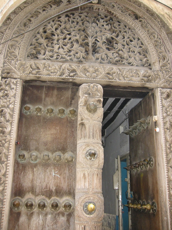 Carved door in Stone Town — the historic part of Zanzibar City.